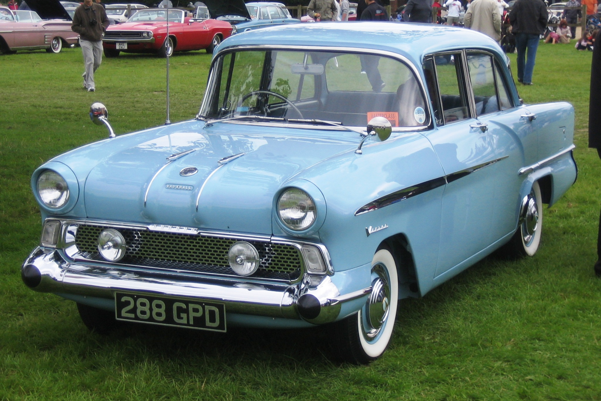 Vauxhall Victor FA at Classic Car Show in Hertfordshire